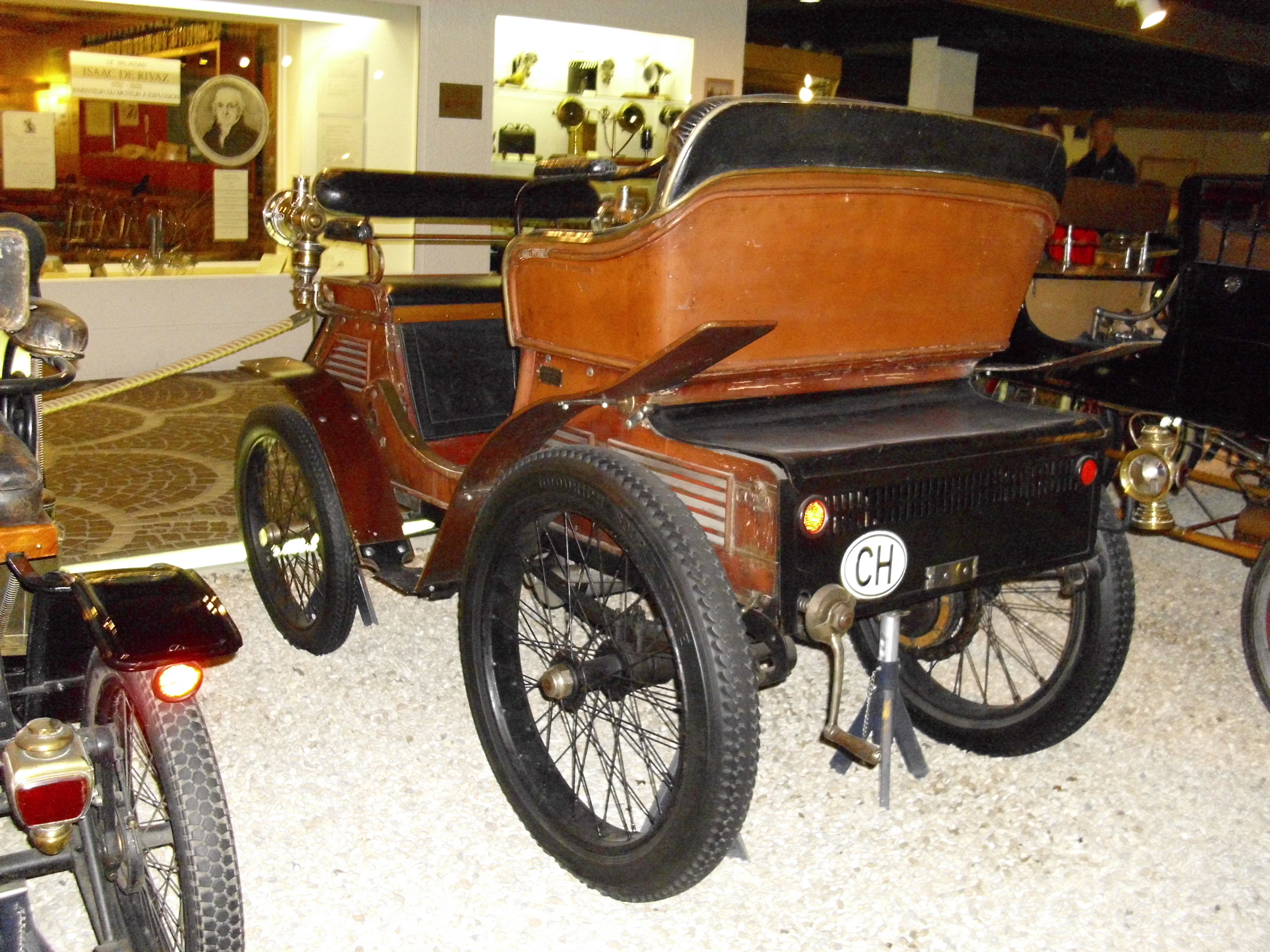 Jeanperrin 1899